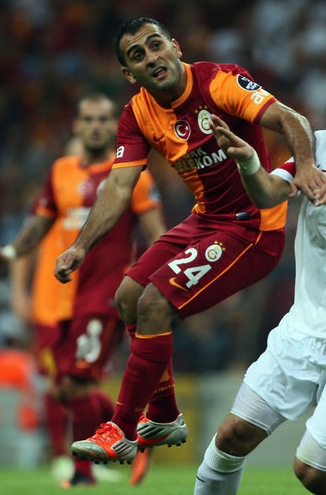 Erman Kılç Galatasaray Photo:MrtÖzgn